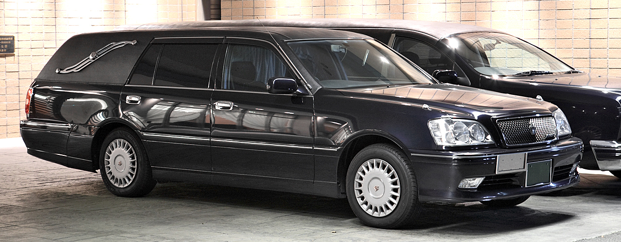 Toyota Crown Hearse